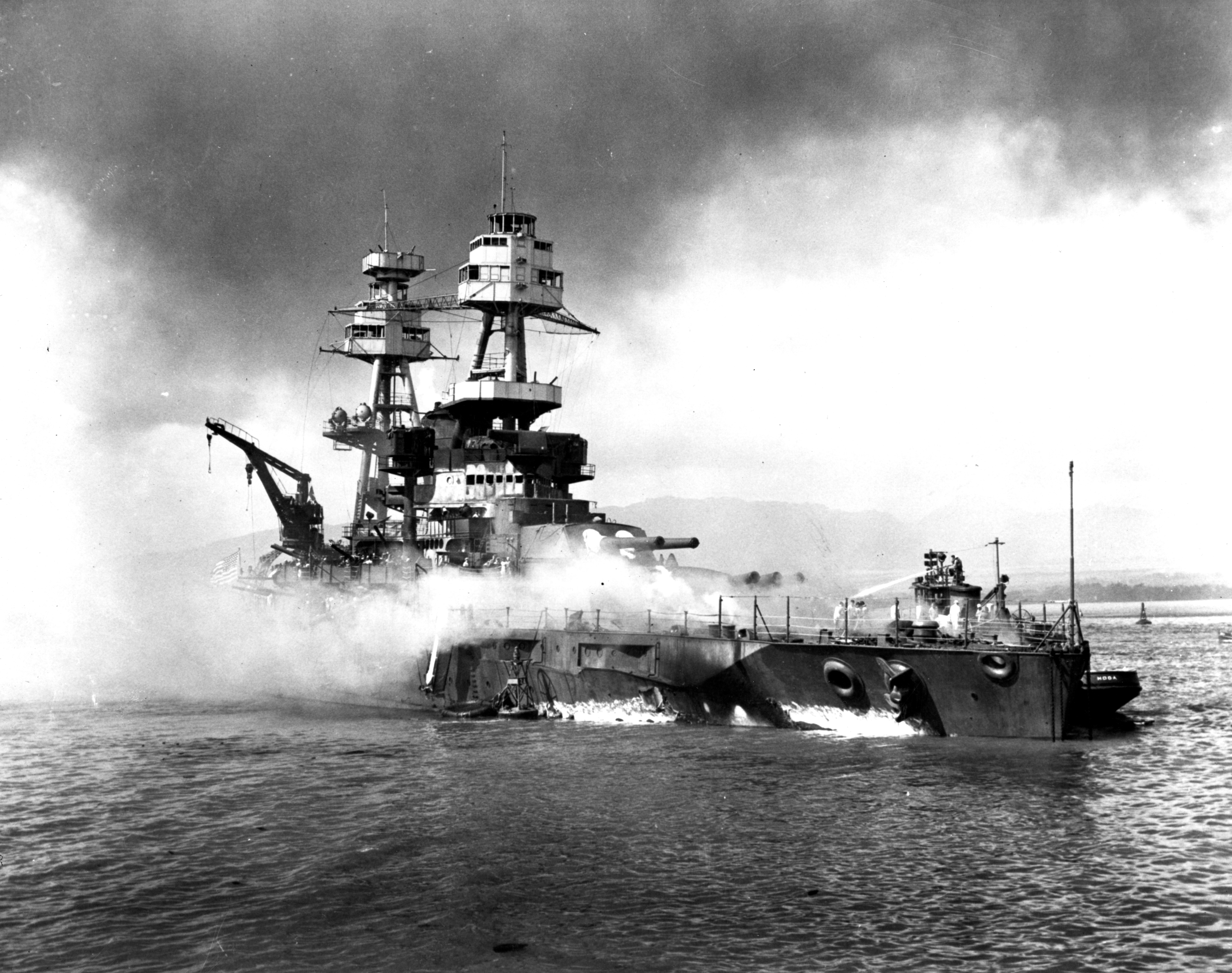 The U.S. Navy battleship USS Nevada (BB-36) beached and burning at 0925 hrs on 7 December 1941 after being hit forward by Japanese bombs and torpedoes. Her pilothouse area is discolored by fires in that vicinity. The harbor Tugboat Hoga (YT-146) is alongside Nevada´s port bow, helping to fight fires on the battleship's forecastle. Note channel marker bouy against Nevada's starboard side.